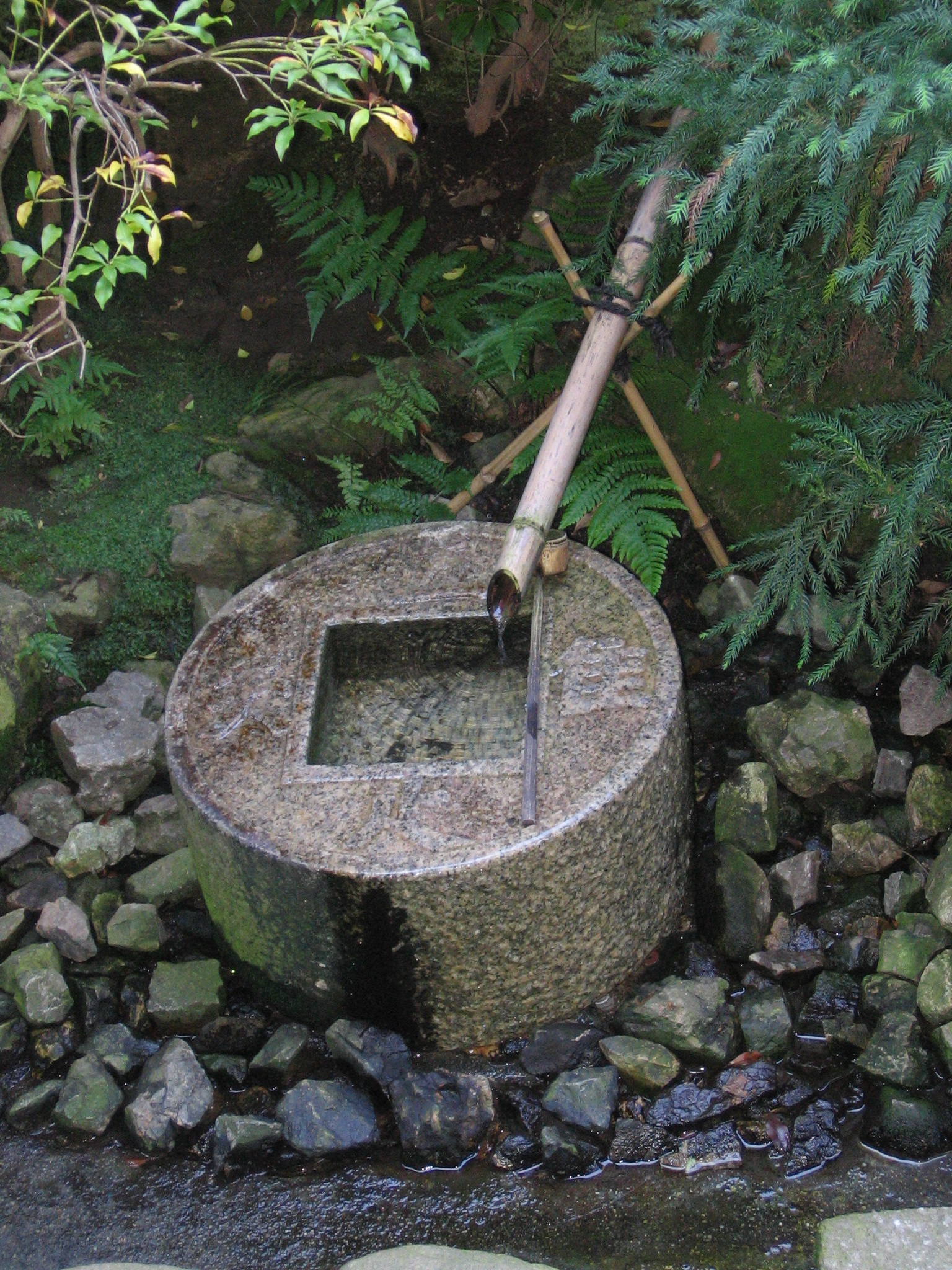 Tsukubai (small basin for ritual washing) at Ryoanji temple On the famous poem, see File:Tsukubai-inscription.jpg.